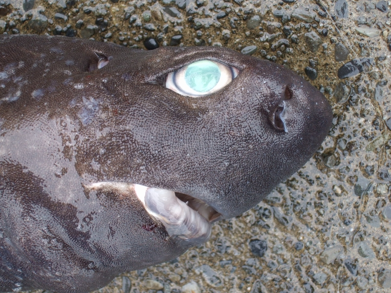 Kitefin shark (Dalatias licha) caught off Japan